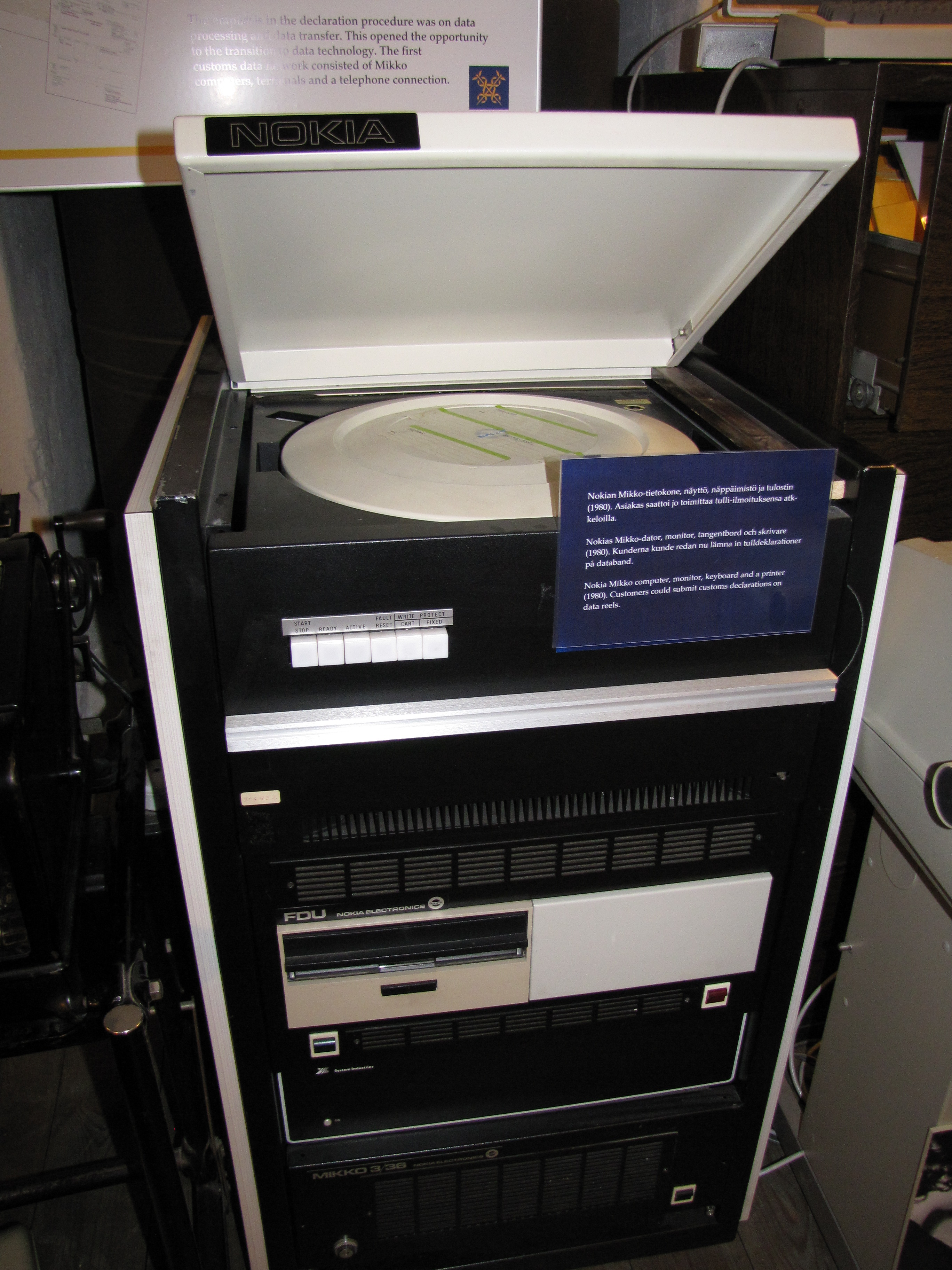 Nokia Mikko 3/36 minicomputer from 1980, used by Finnish customs service.